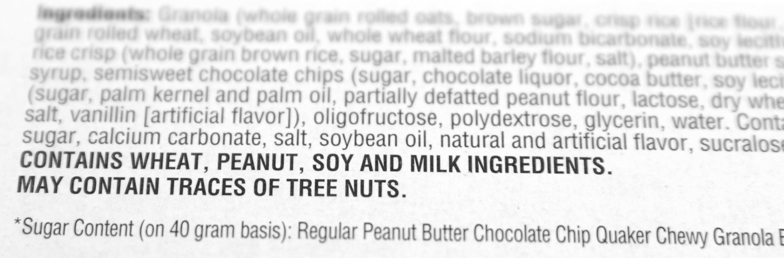 An example of the list of potential allergens contained in a food item.